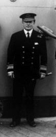 Portrait of Rear Admiral Arthur Leveson CB, a senior officer in the British Royal Navy